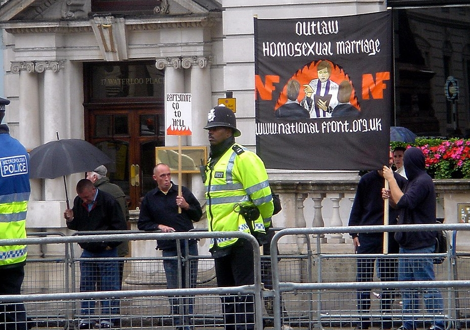 National Front protesting against gay marriage in 2007.